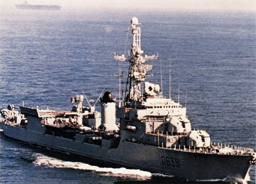 The French destroyer La Galissonnière (D638) underway in the Mediterranean Sea. The U.S. Navy aircraft carrier USS Nimitz (CVN-68) is faintly visible in the background. Nimitz, with assigned Carrier Air Wing 8 (CVW-8), was deployed to the Mediterranean Sea from 10 November 1982 to 20 May 1983.